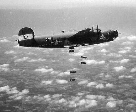 B-24 of the 492d Bomb Group from Harrington Airfield, England, on a mission over Nazi Occupied Europe.